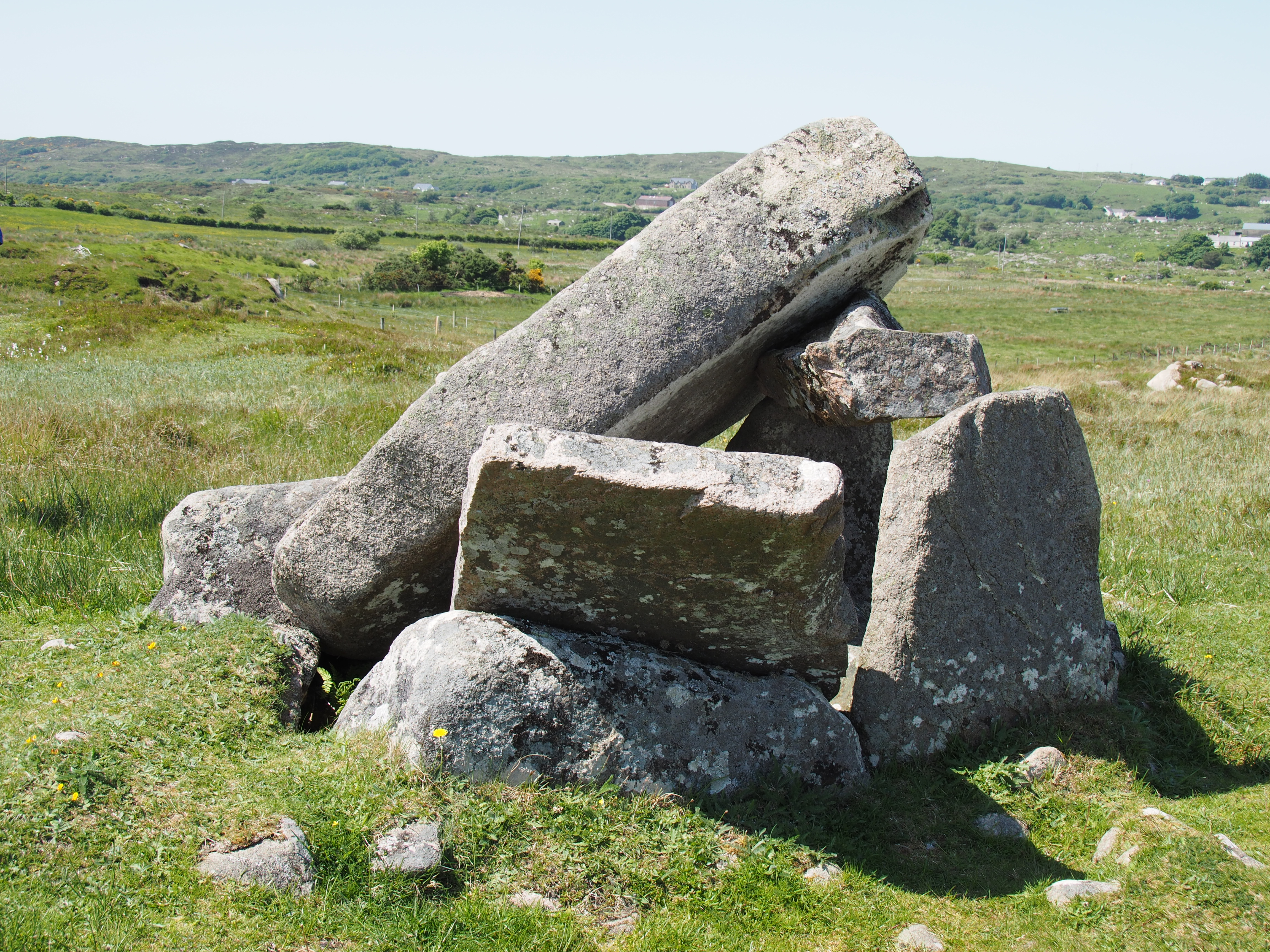 Kilclooney Dolmen near Ardara, County Donegal, Republic of Ireland